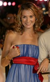 Natalie Lisinska at eTalk Star! Schmooze, Toronto International Film Festival party.